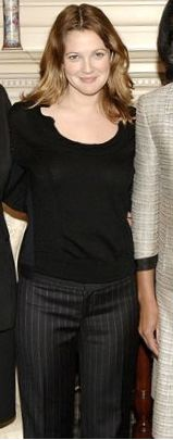 Drew Barrymore of the World Food Programme. depicted person: Drew Barrymore (age: 32.21)